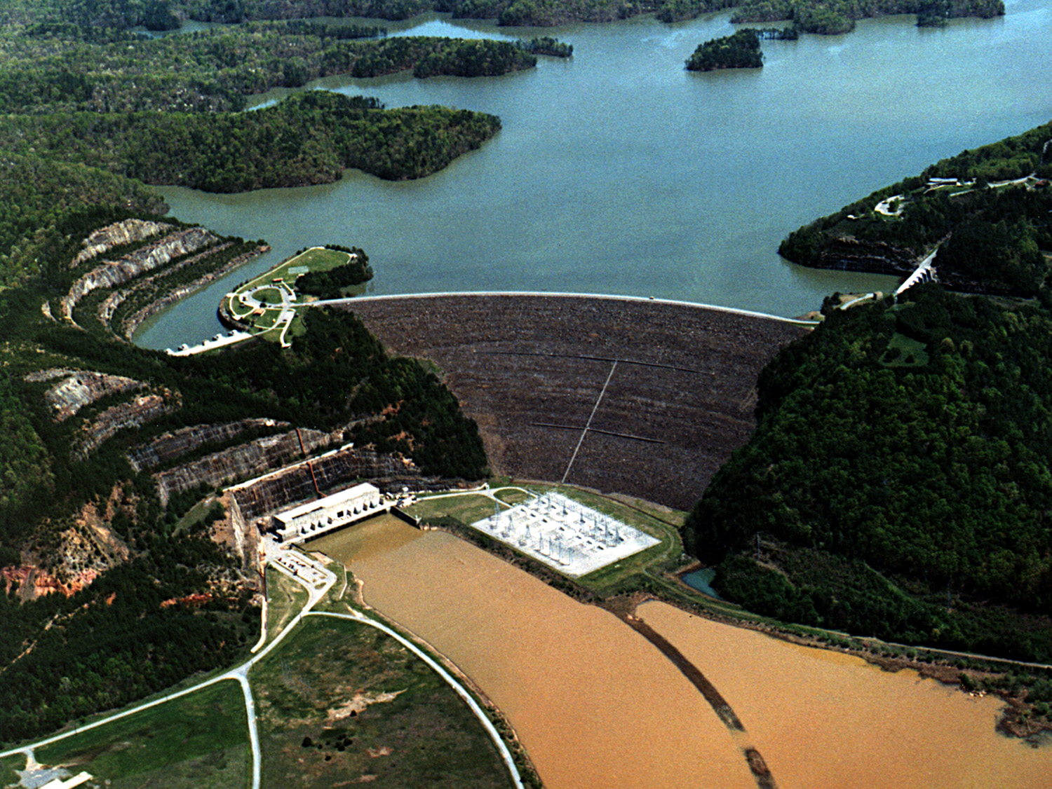 Aerial view of Carters Dam on the Coosawattee River in Murray County, Georgia, USA. The U.S. Army Corps of Engineers constructed the dam in 1977 for flood control and hydroelectric power generation. The dam impounds Carters Lake in the mountains of northwestern Georgia. Coordinates: 34°36′47.97″N 84°40′16.48″W / 34.613325°N 84.6712444°W